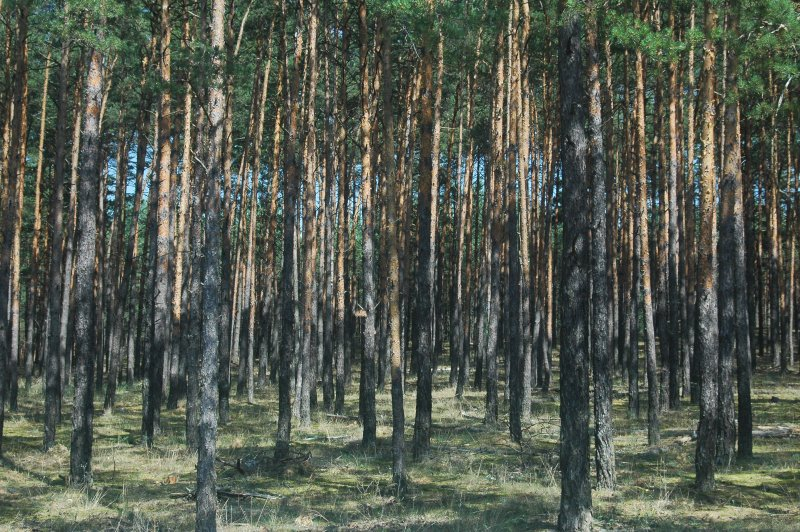 Bor lowland, pine forest